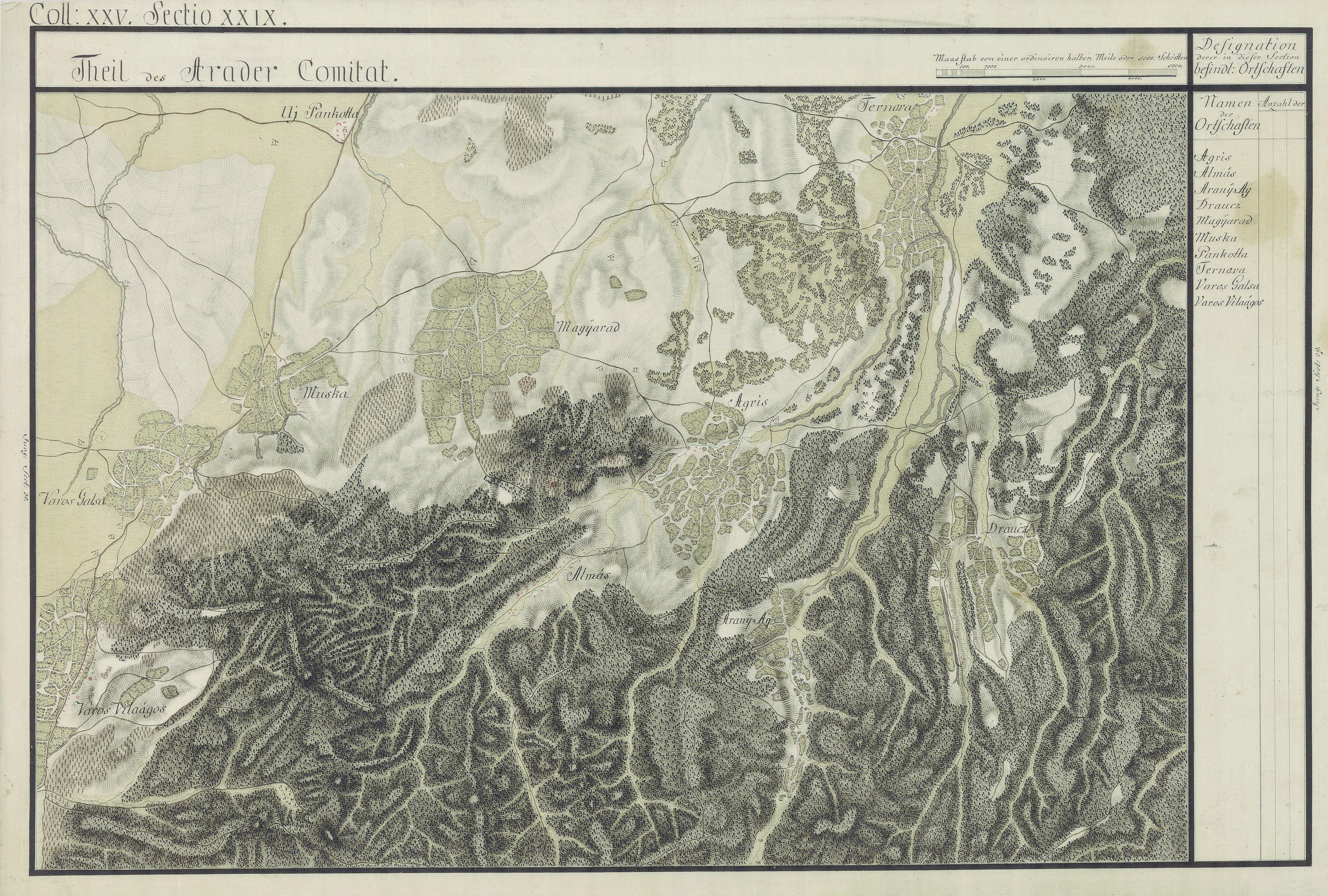 Arad County, 1782-85. Josephinische Landesaufnahme pg.25-29